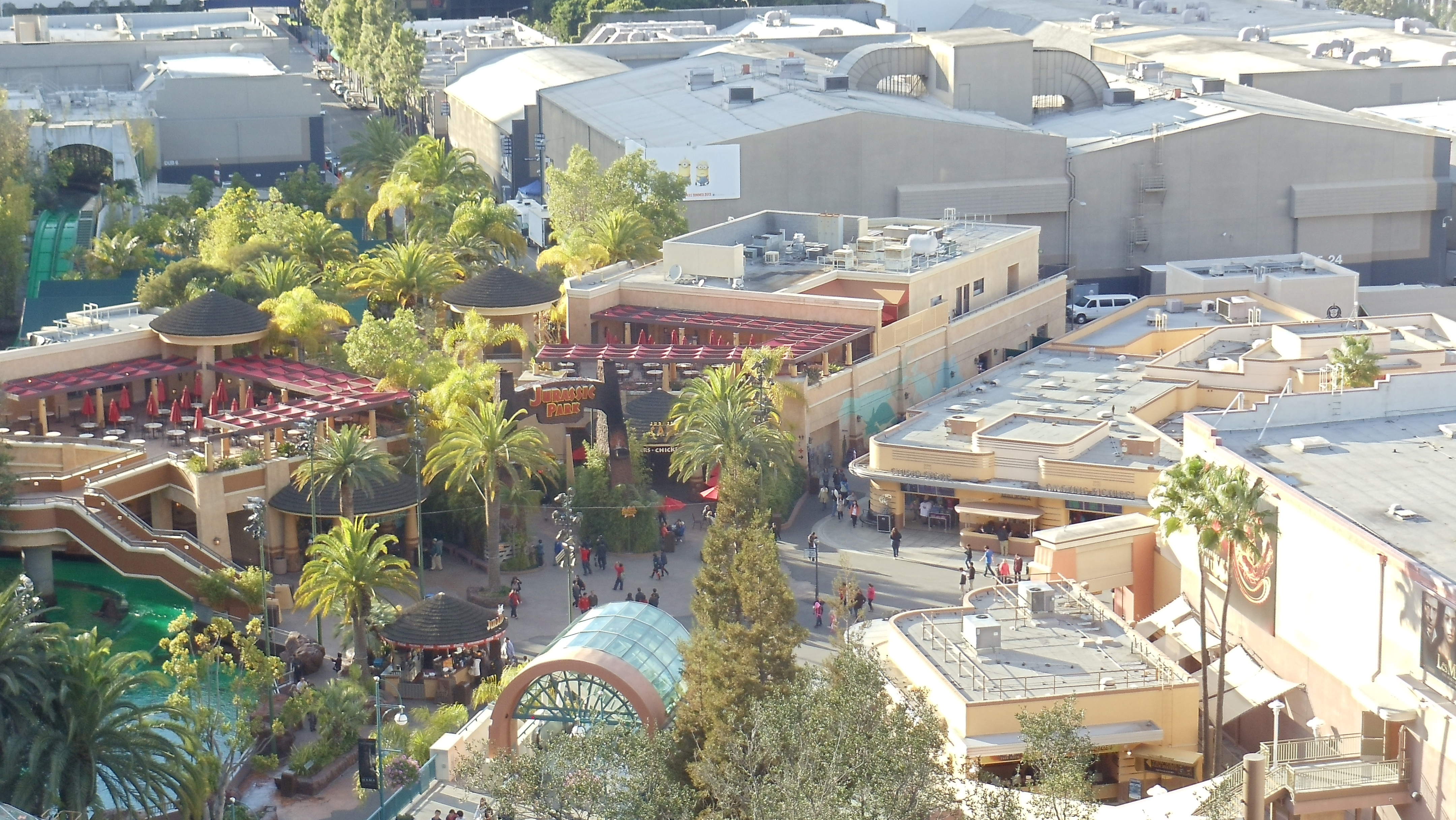 The lower lot is home to 3 current rides: The Mummy's Revenge in door roller coaster, Transformers 3D Ride (dark ride) & Jurassic Park (water ride).